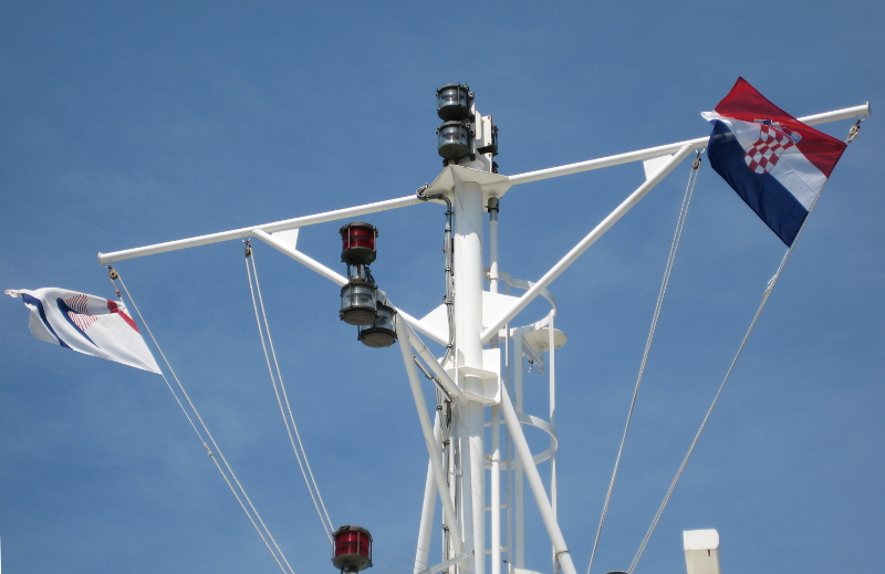 Zastave na Jadrolinijinom trajektu (Valbiska - Merag)